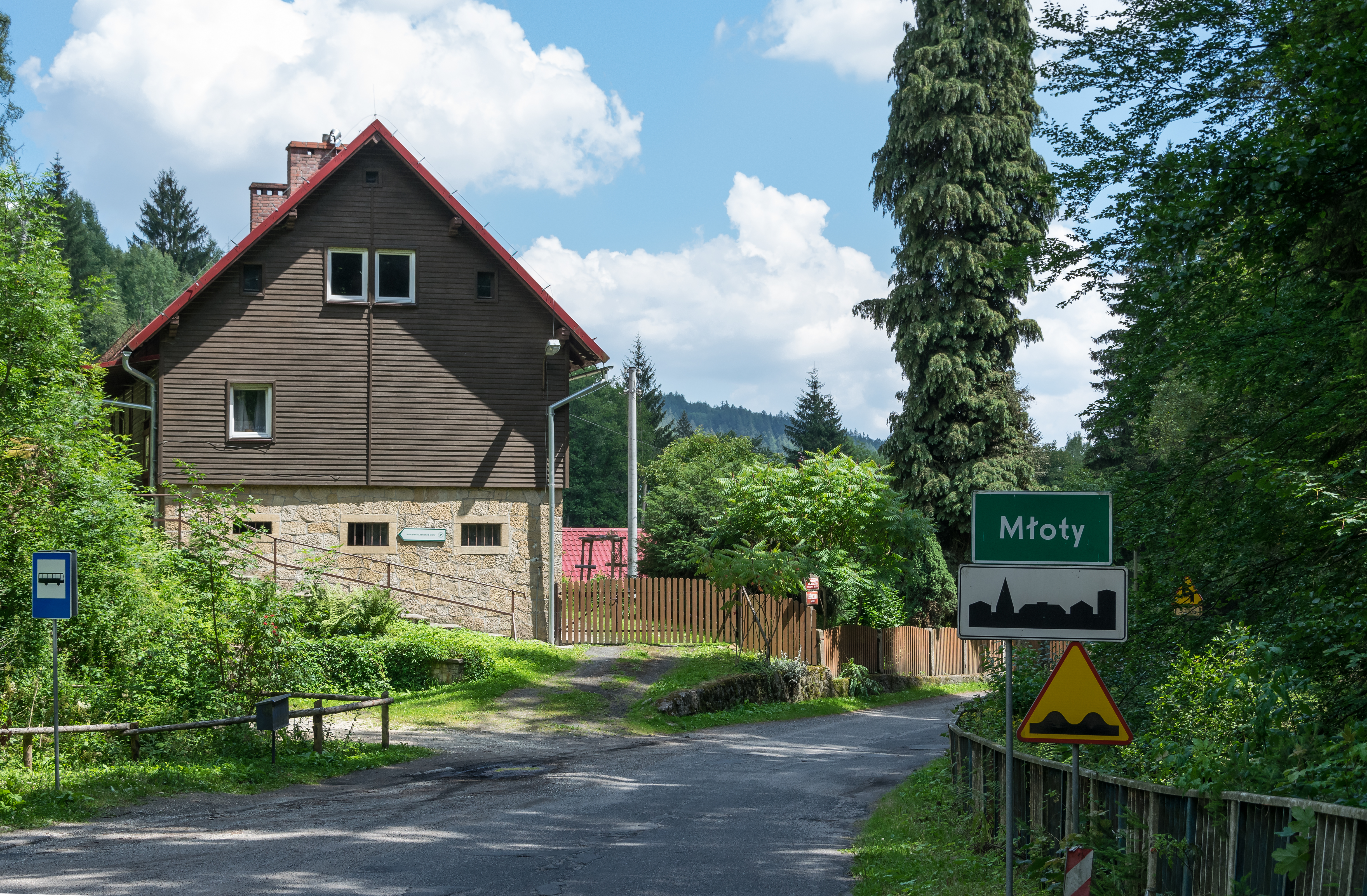 Forester's lodge in Młoty